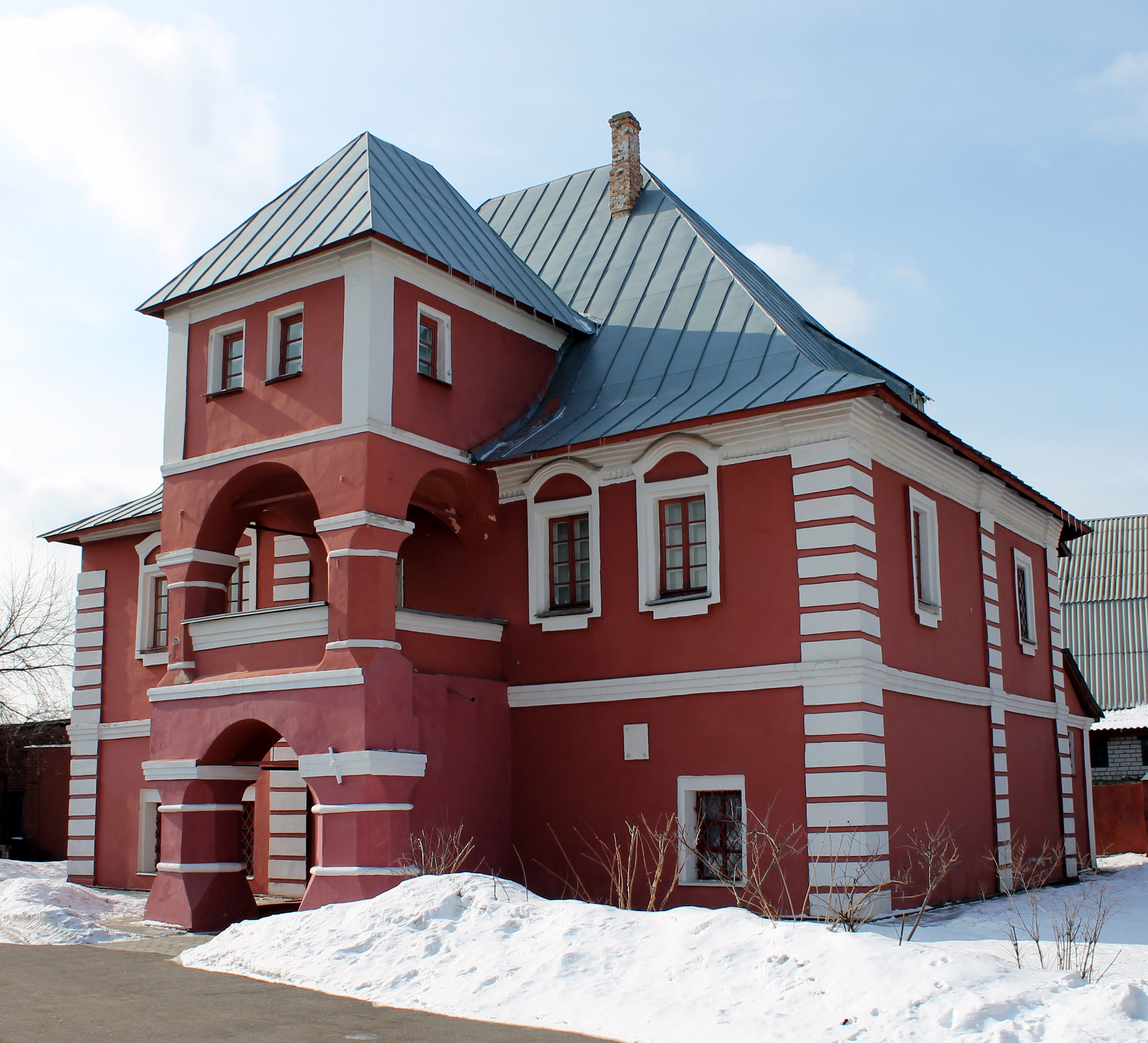 Kursk State Regional Museum of Archaeology